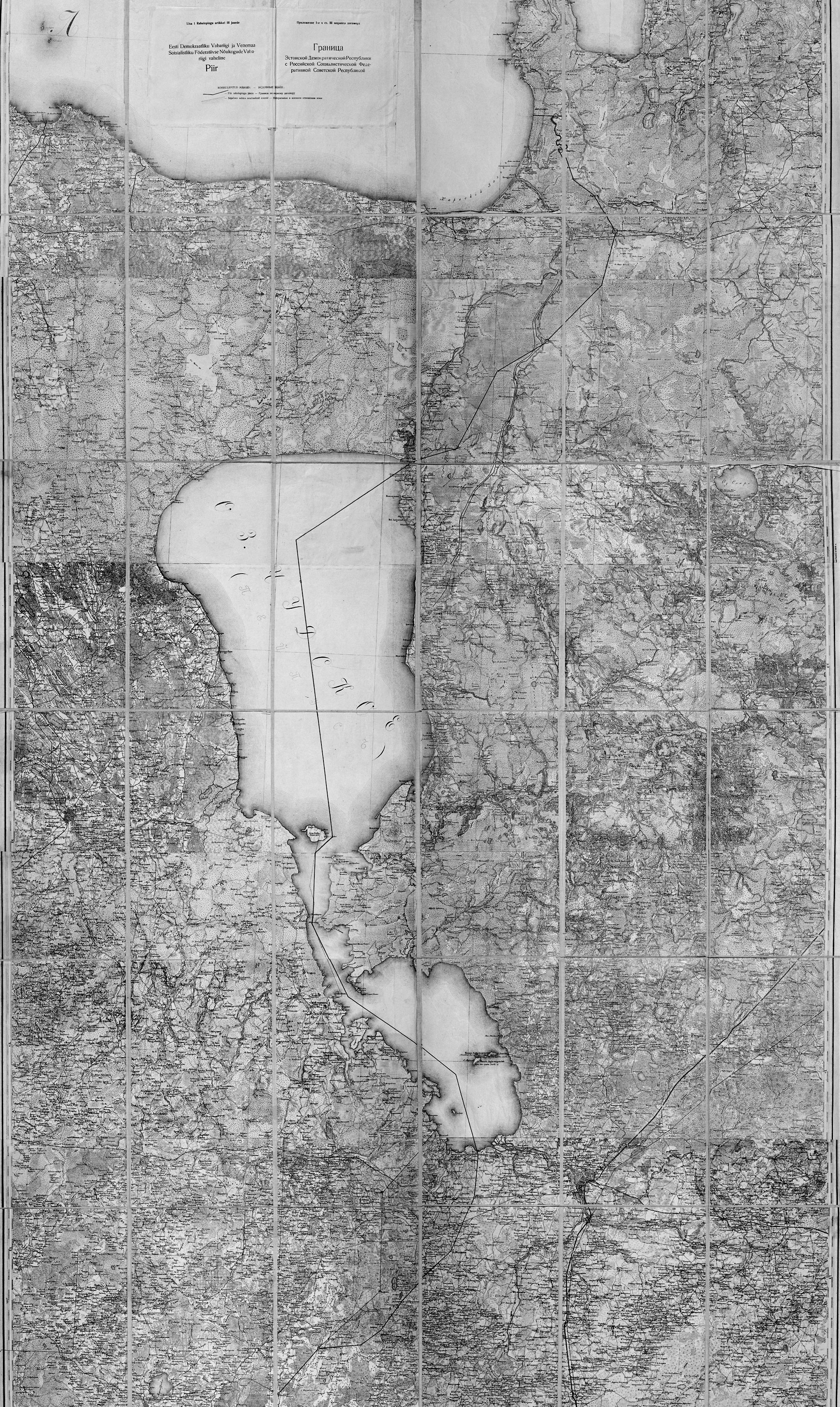 The map of the border between Estonia and Russian SFSR, Appendix 1 to Article III of the Treaty of Tartu